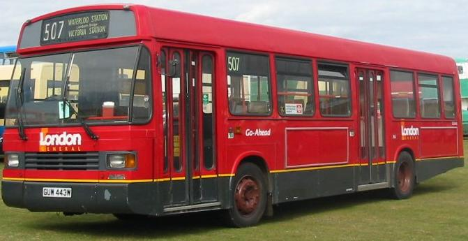 Leyland National Greenway bus, nearside view (cropped from original image source)